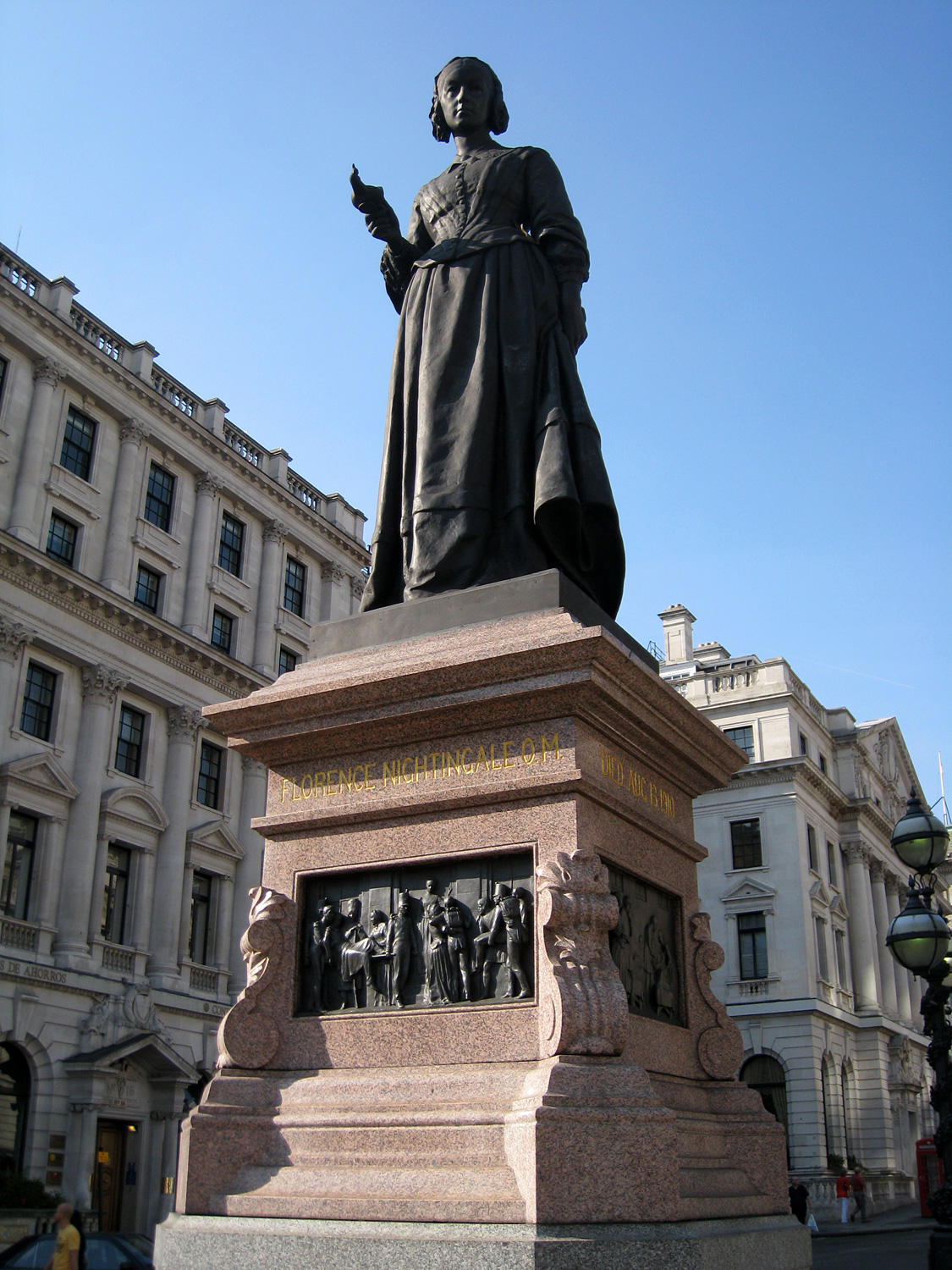 Statue of Florence Nightingale on Waterloo Place, London.